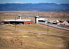 Supermax prison, Florence Colorado